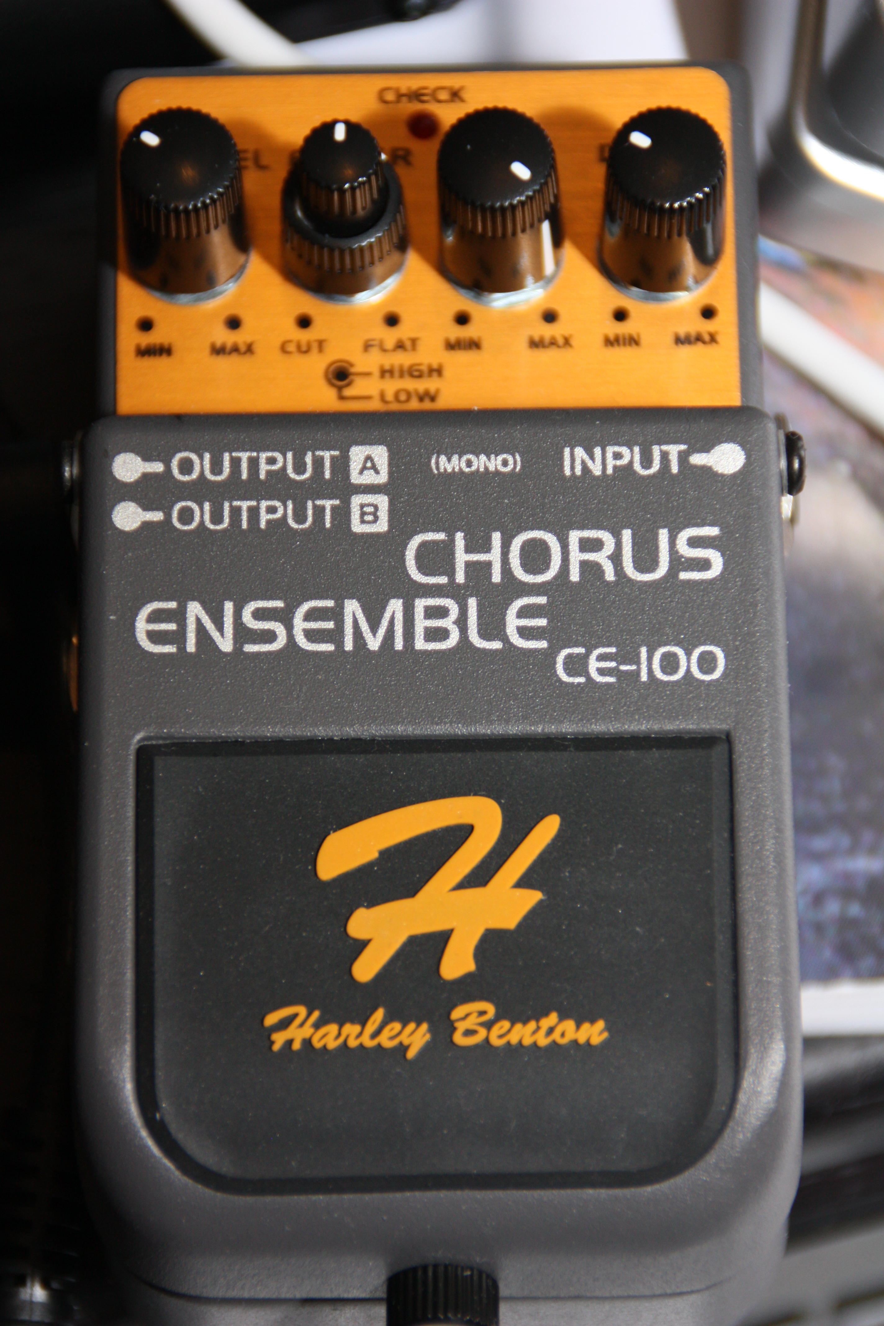 Harley Benton Chorus Ensemble